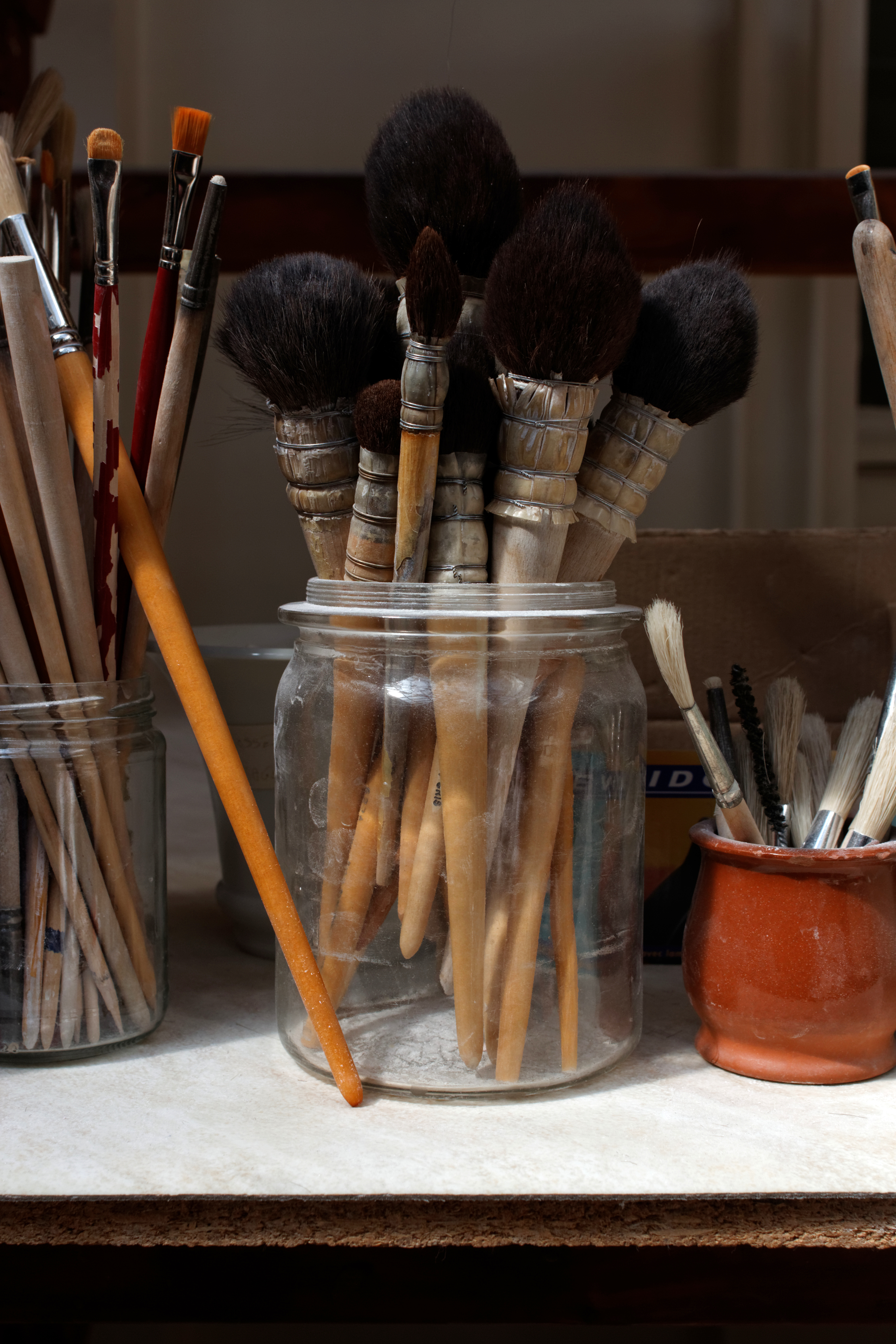 Glazing workshop of the manufacture nationale de Sèvres.